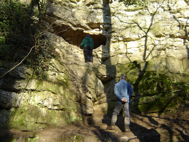 Kirkdale Cave Upper figure looking into cave entrance this cave is popular with school field trips